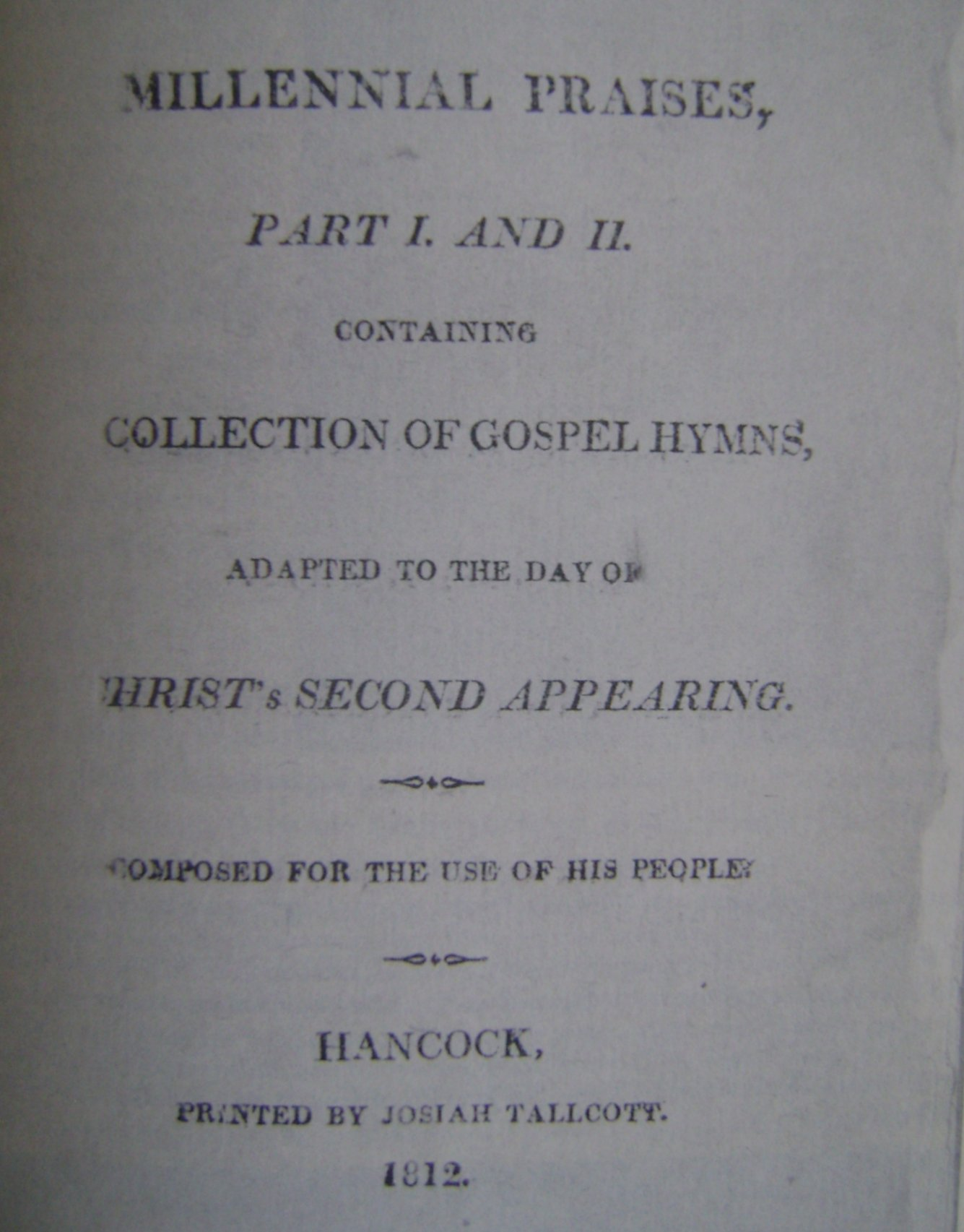 Millennial Praises 1812 book cover